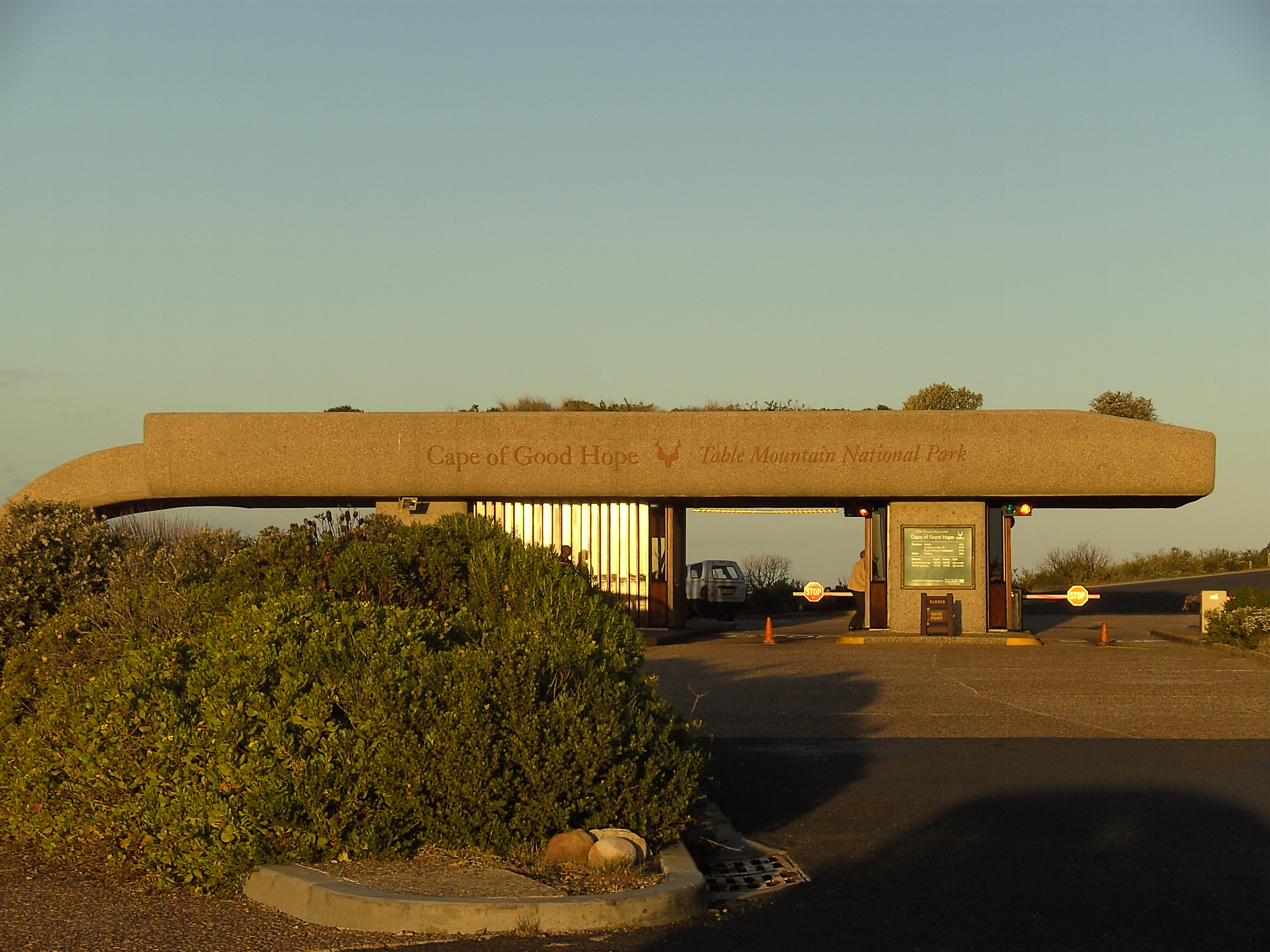 Cape of Good Hope entrance